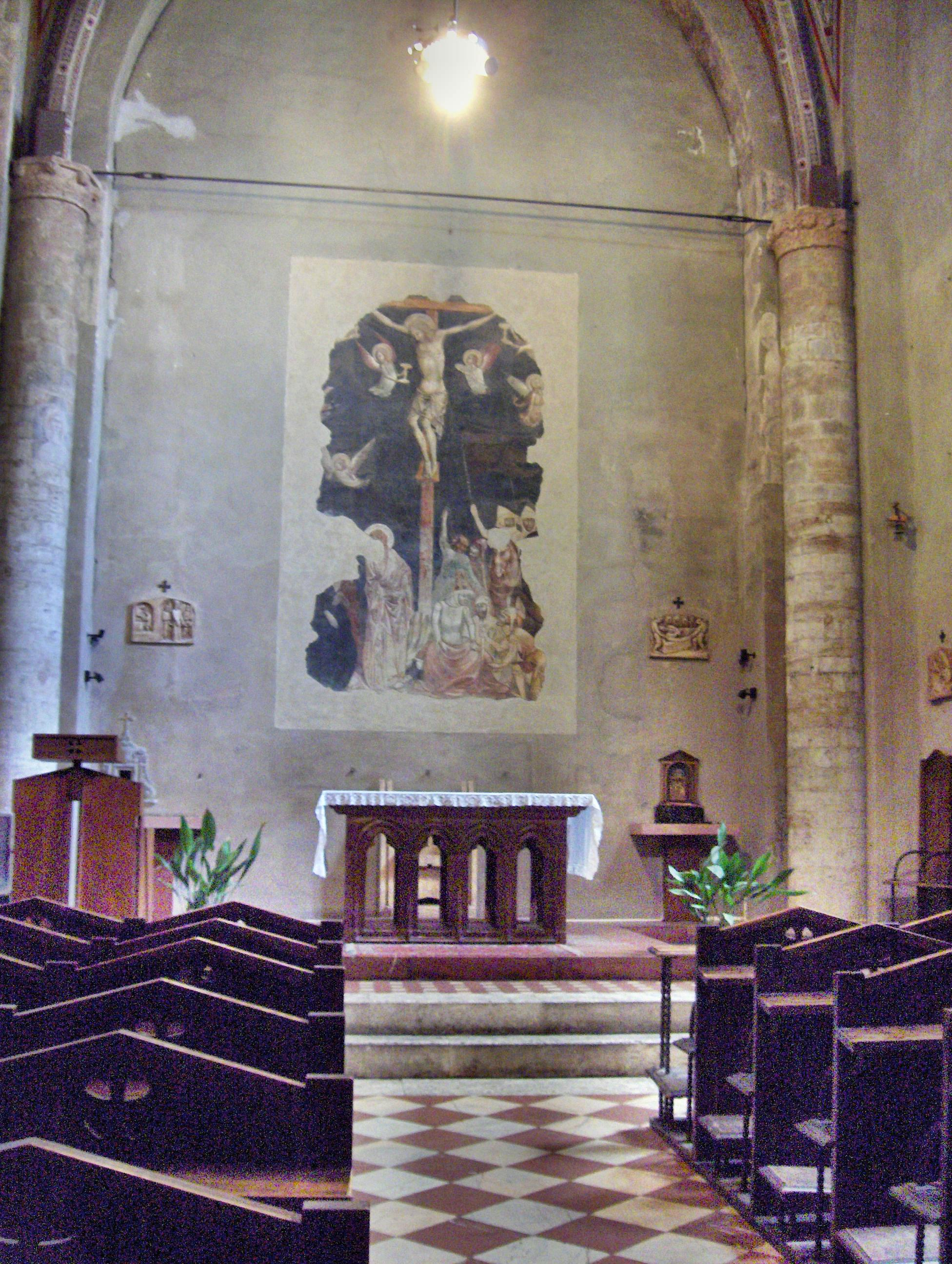 Crucifixion; fresco by anonymous master from Perugia (14th c.); Church of St; Agata, Perugia, Italy